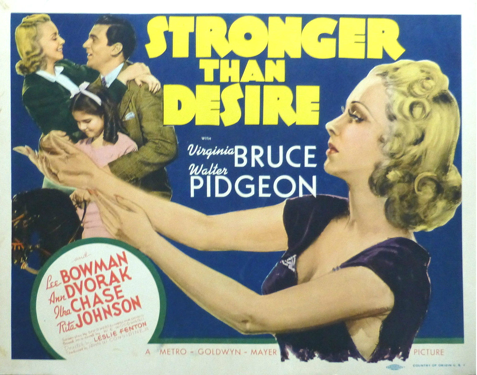 Lobby card from the American drama film Stronger Than Desire (1939).